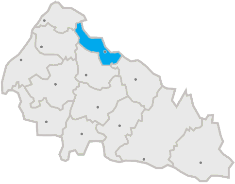 Ukraine, Oblast Transcarpathia, Rajon Volovets highlighted